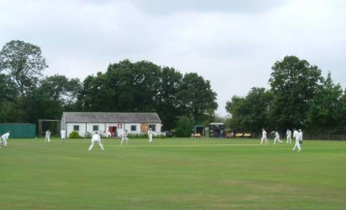 Nether Whitacre Cricket Club vs Weoley Hill Cricket Club 14th August 2004